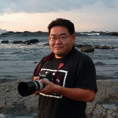 It was taken in 2008 in Taiwan.